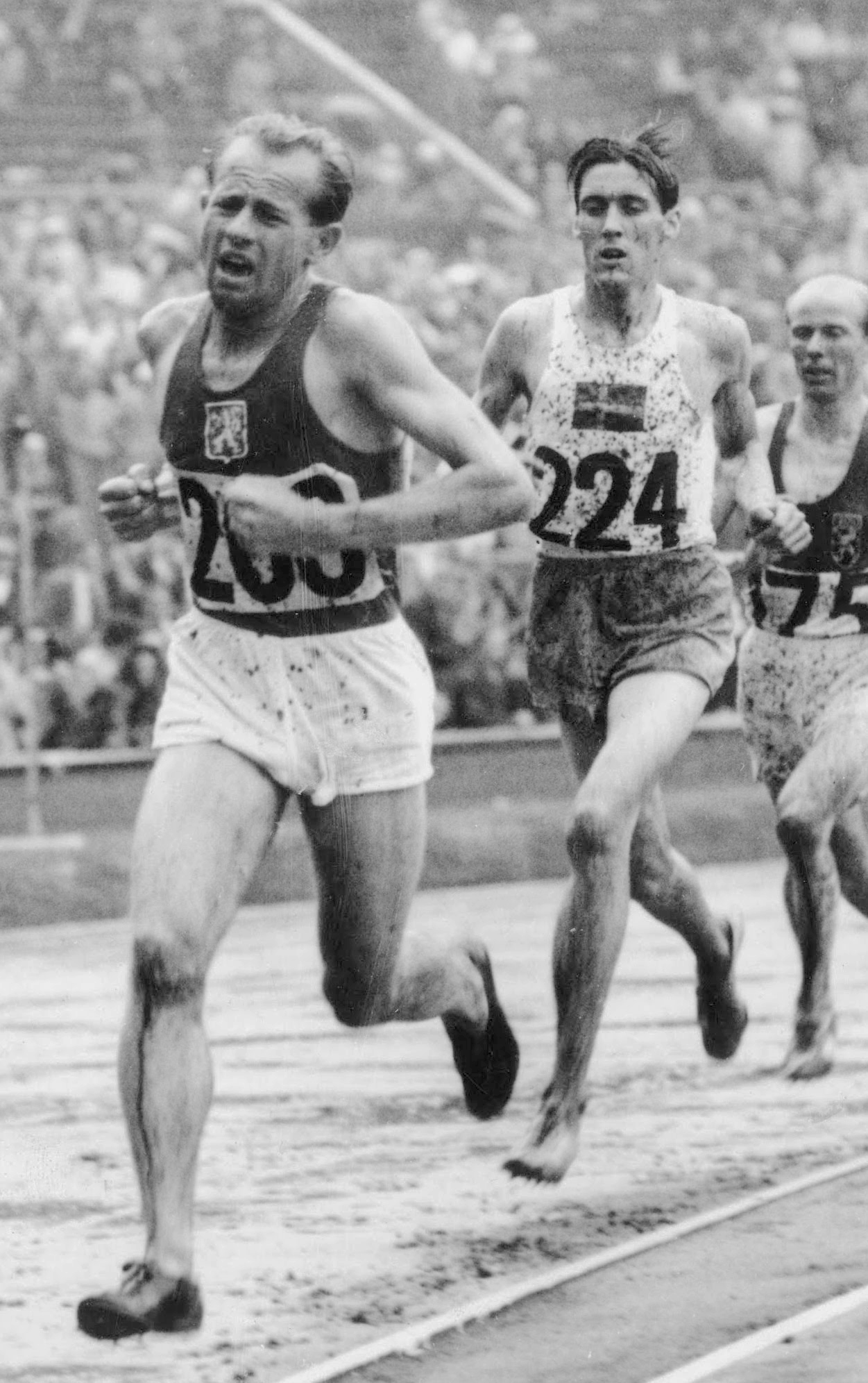 5000 m at the 1948 Olympics. Left-right: Emil Zátopek, Erik Ahldén